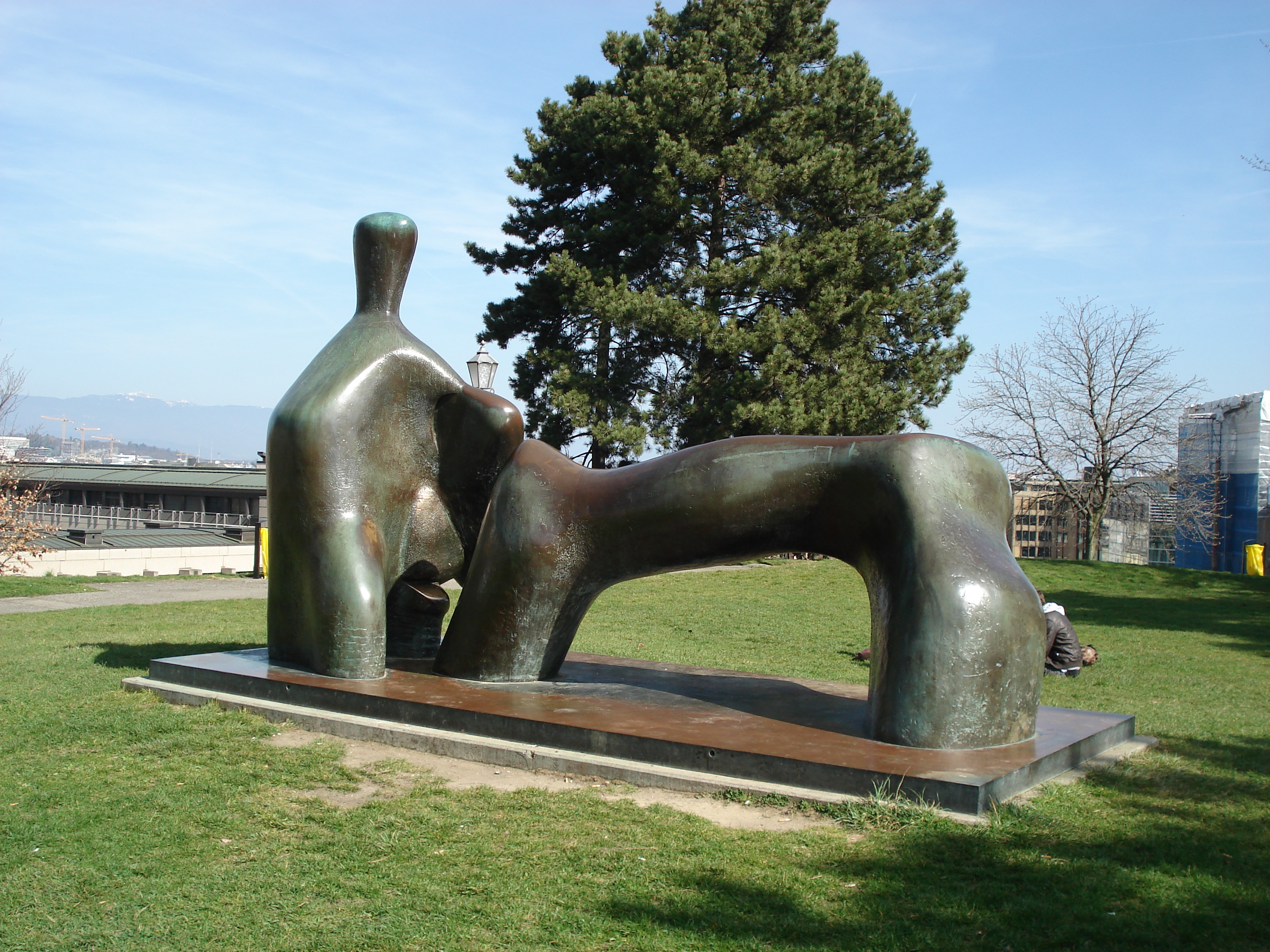 A statue of Henry Moore in Geneva